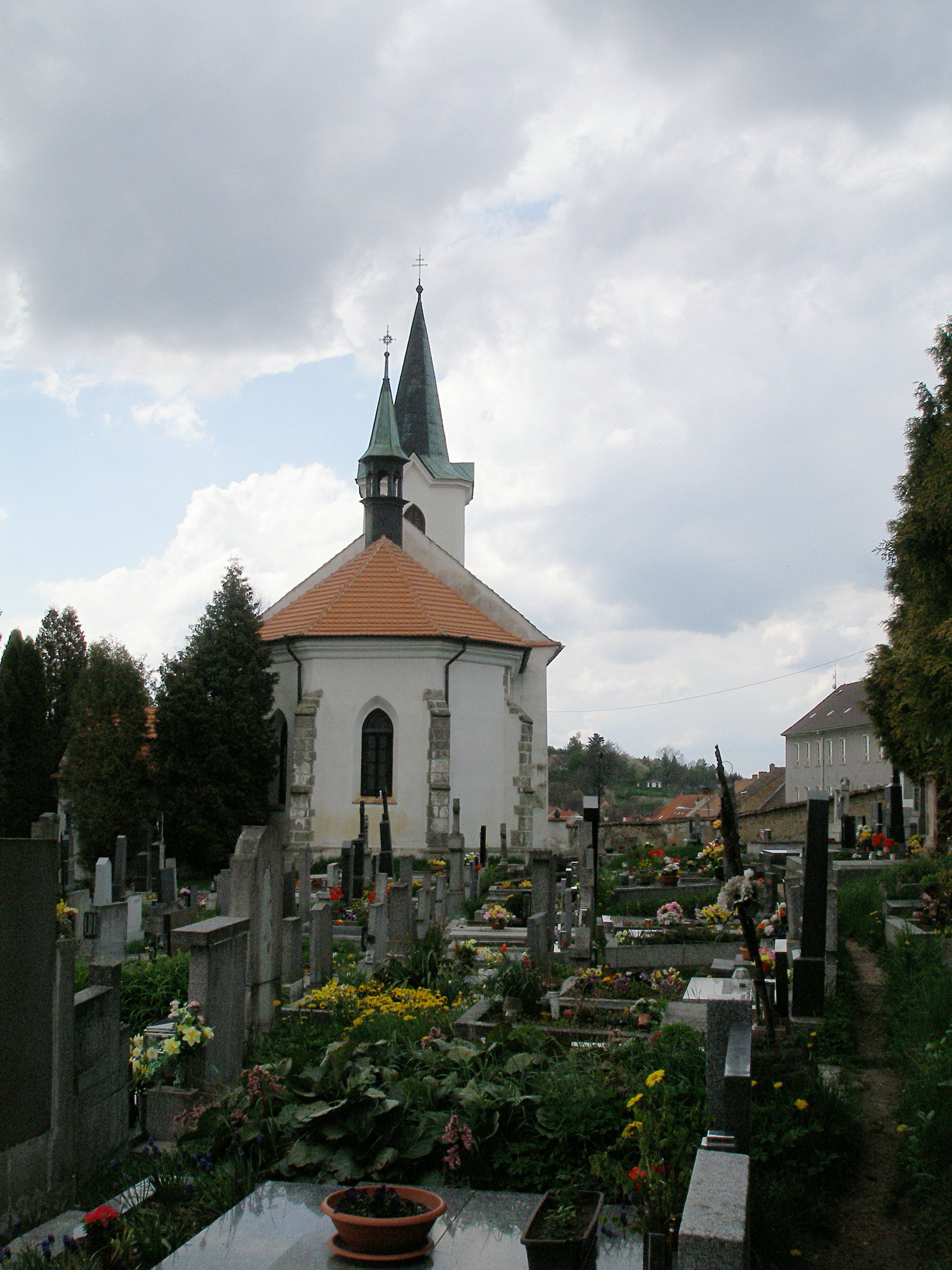 The Eastern view of the Bělčice church